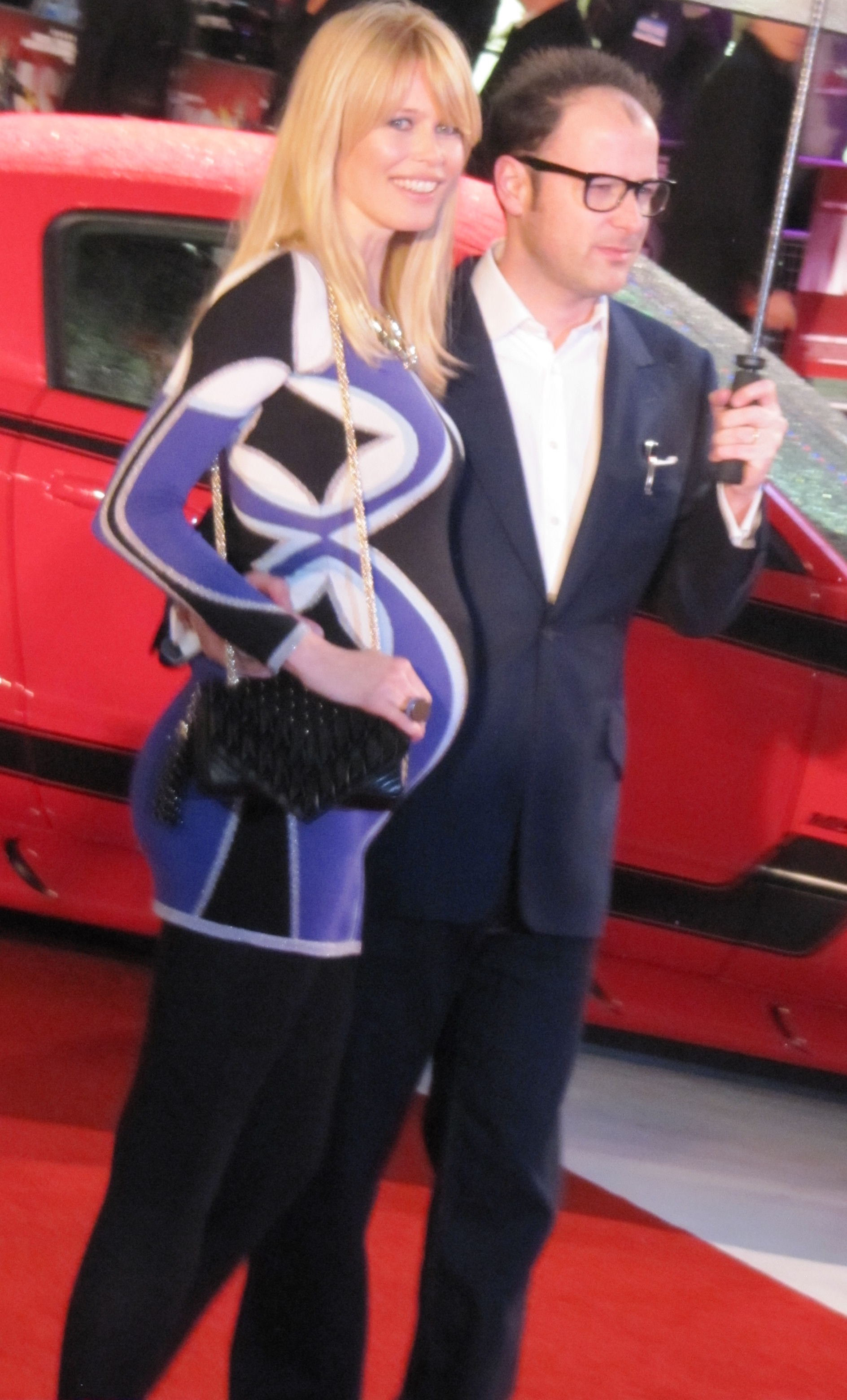 Claudia Schiffer and Matthew Vaughn at the European Kick-Ass Premiere in London. Schiffer is pregnant with her third child.